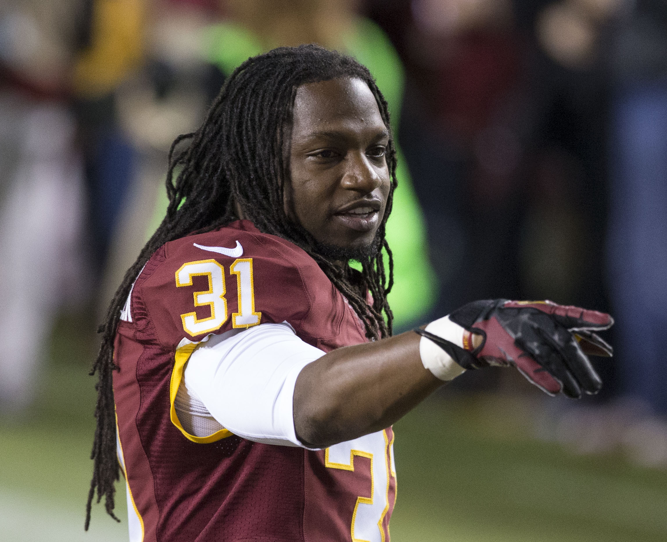 Washington Redskins safety, Brandon Meriweather, in a game against the New York Giants on September 25, 2014.